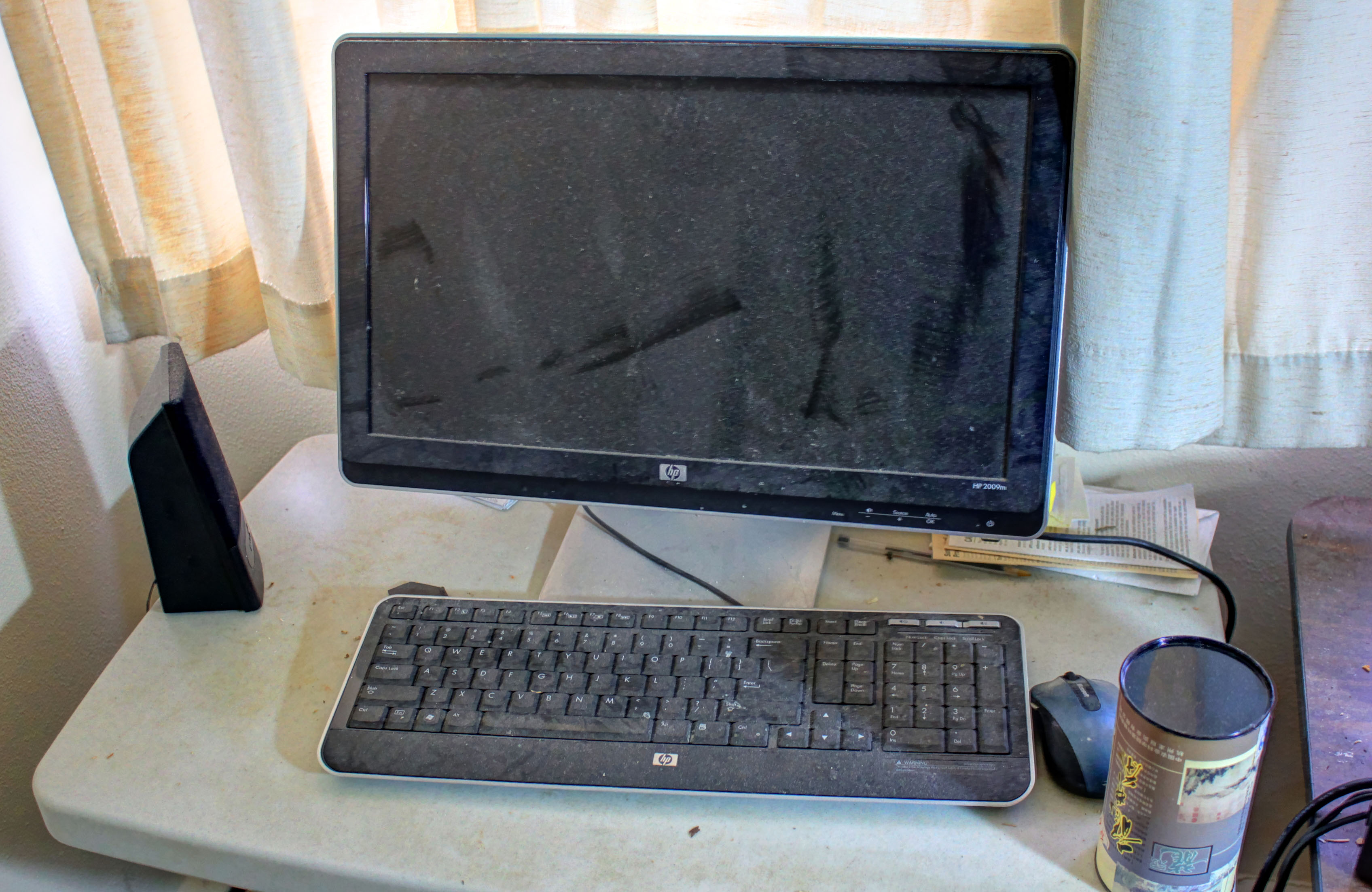 Pictures of other random objects Dusty and aging computer monitor and keyboard